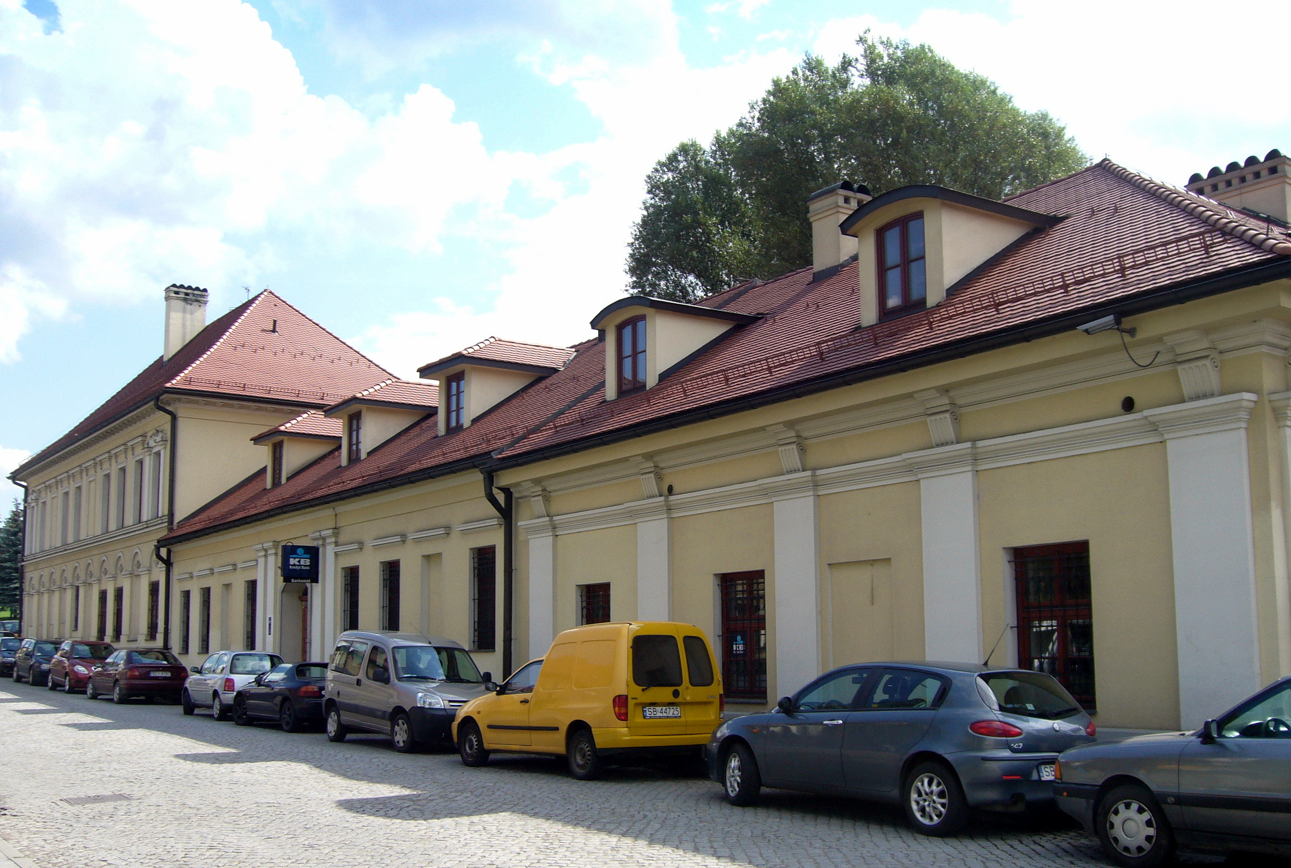 Thomke's palais, Köntzner's palais called too, in Bielsko-Biala.